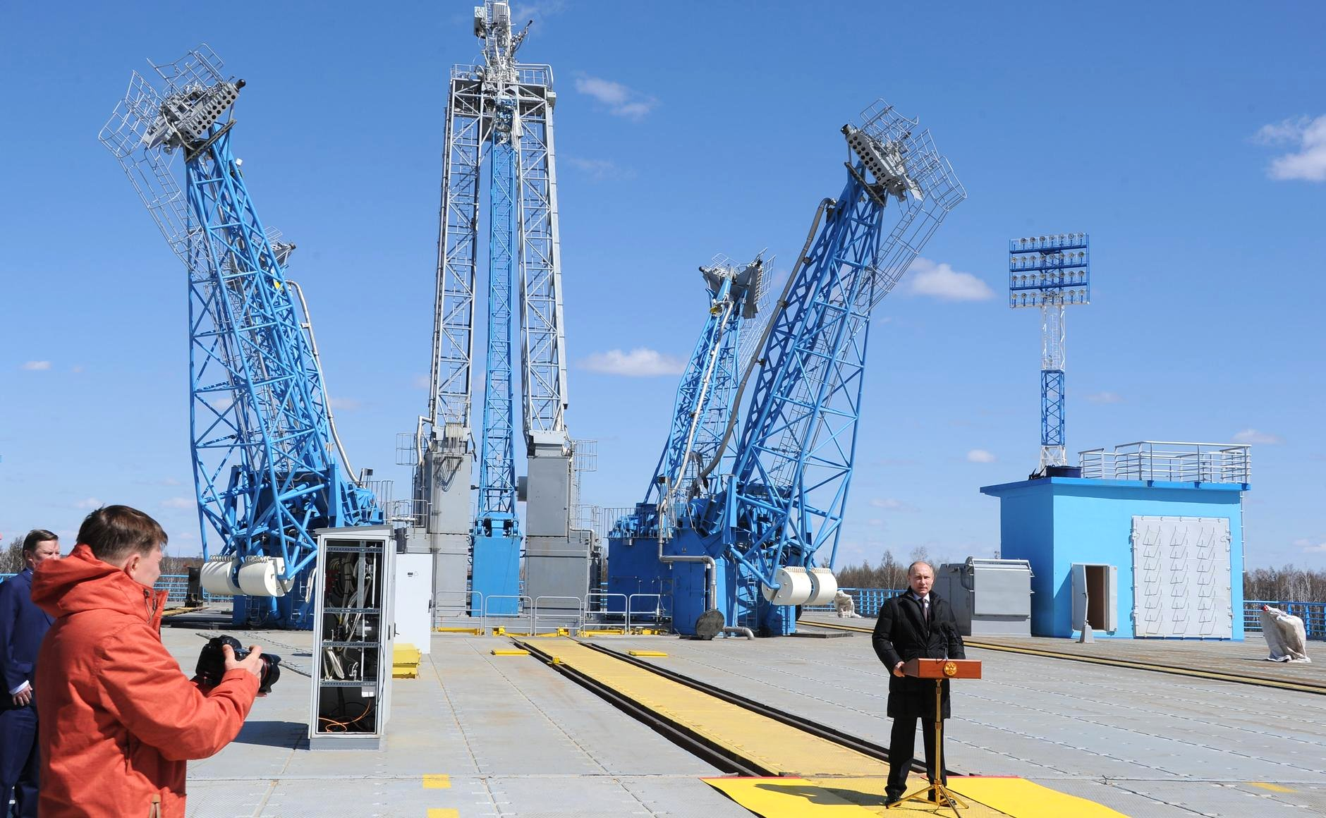 Launch of the Soyuz-2.1a from Vostochny 2016-04-28